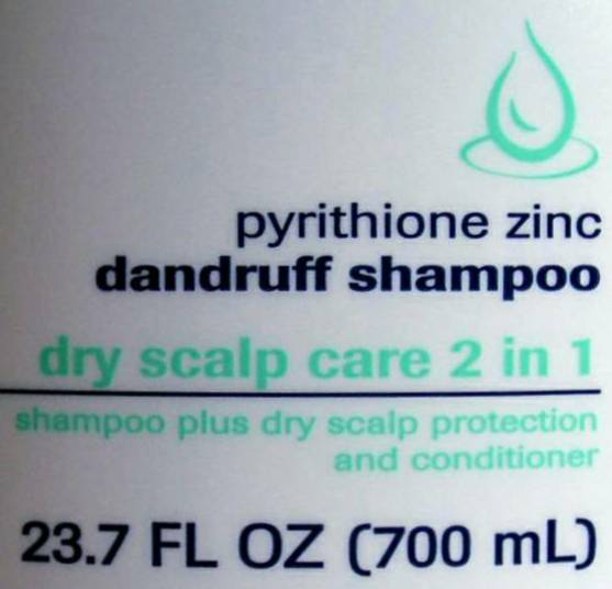 Photographed by Daniel Case 2006-05-27 in my bathroom.